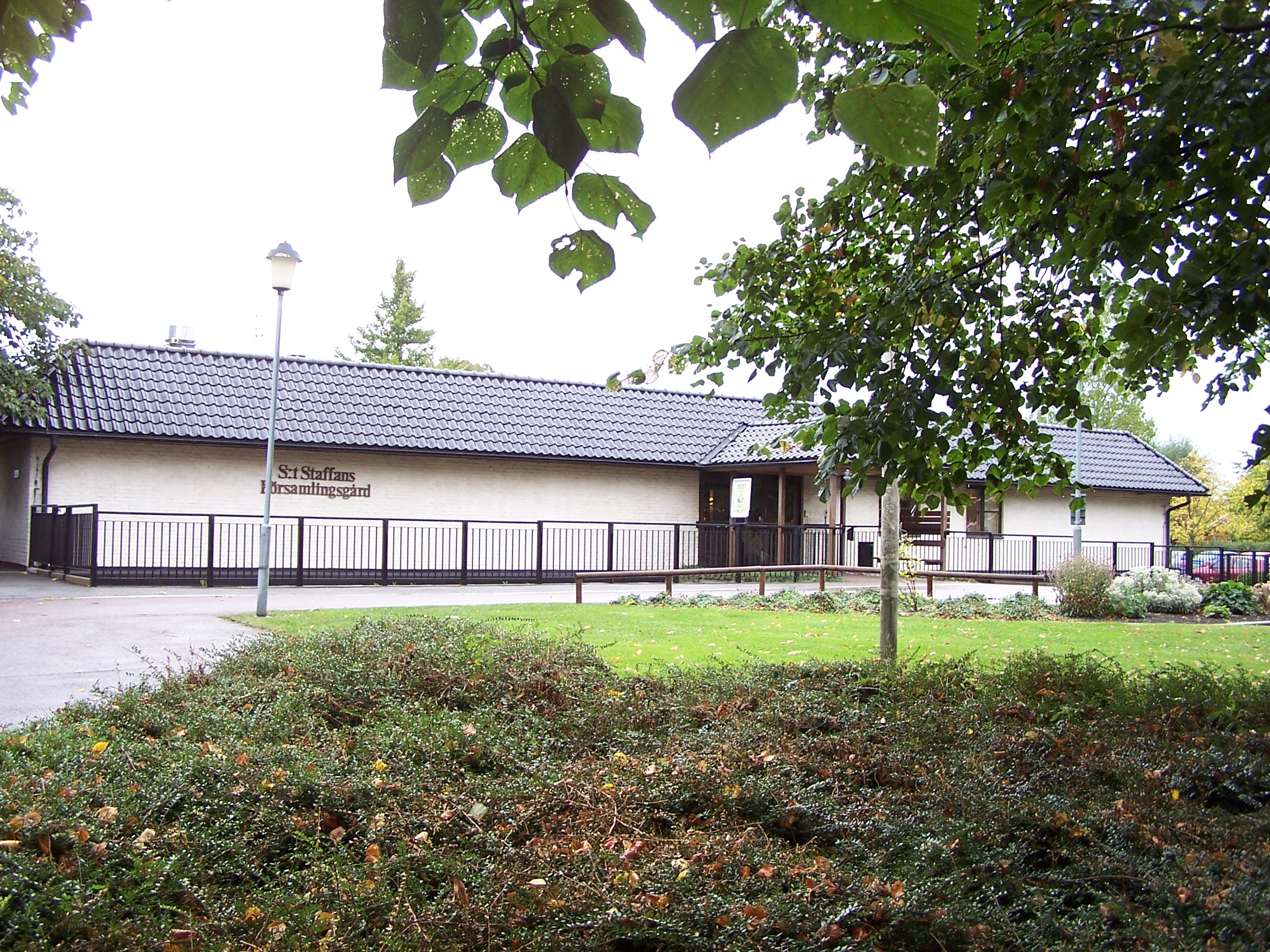 S:t Staffan parish garden in Staffanstorp, Sweden